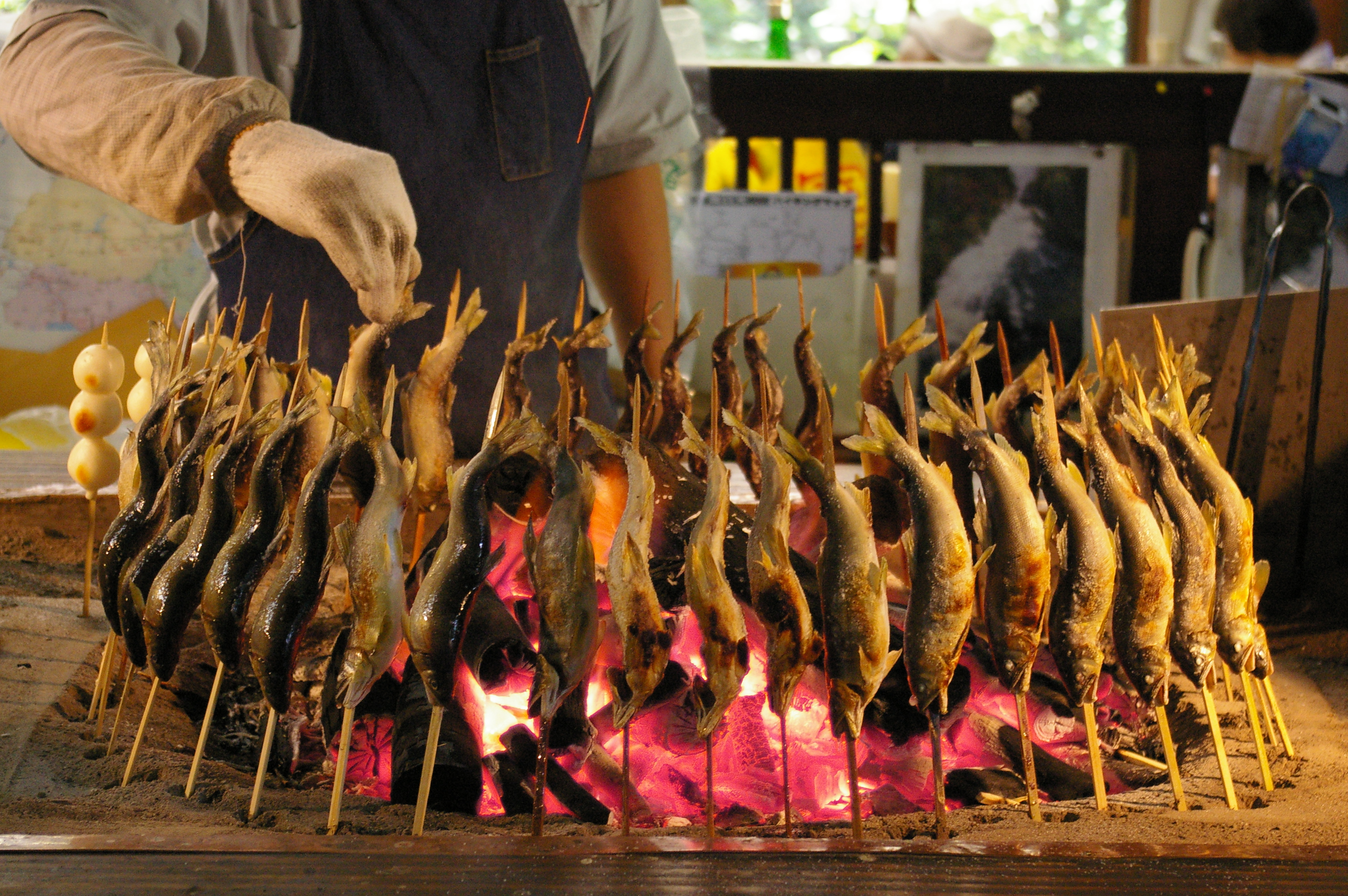 Charcoal-broiled Ayu